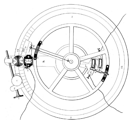 Differential rheotome of Julius Bernstein, used to measure action potentials. From his 1868 paper in Archiv für die gesammte Physiologie des Menschen und der Thiere 1: 173–207